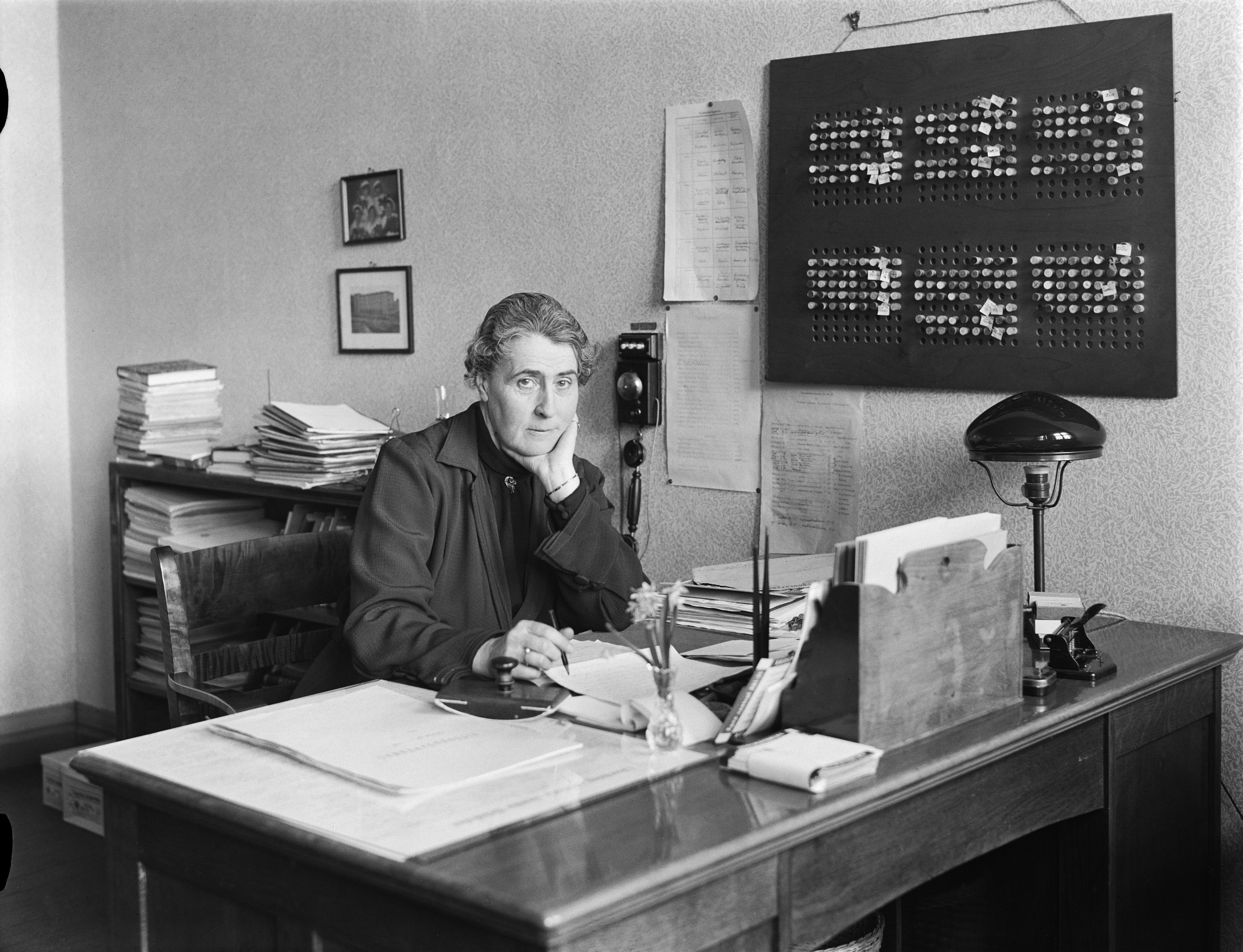 Photograph of the Finnish writer and teacher Ingrid af Schultén (1889–1970).